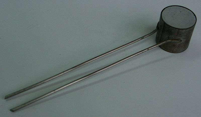 lechatalier nidle with cement paste